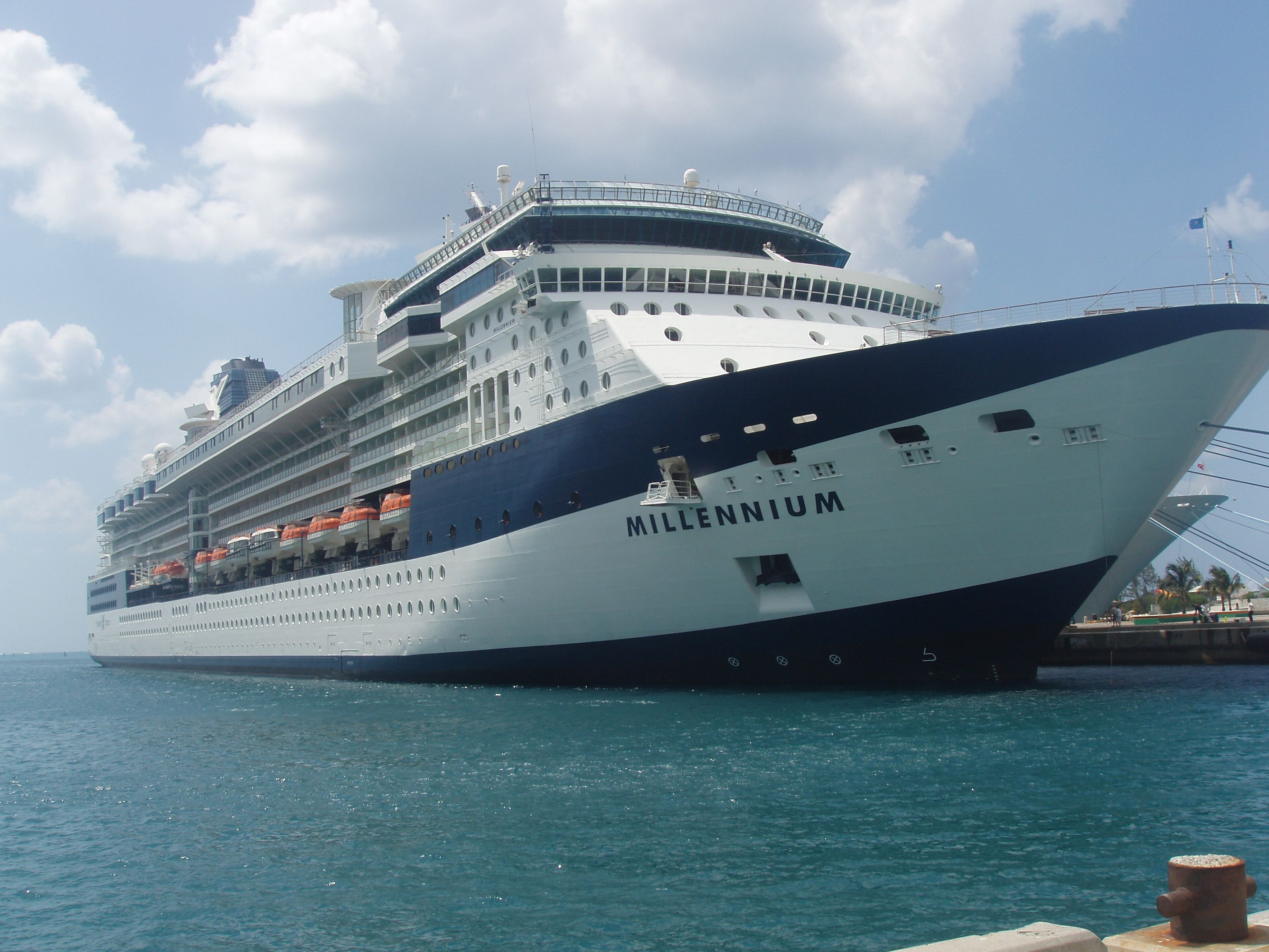 The Celebrity Millennium cruiseship docked in Nassau, Bahamas